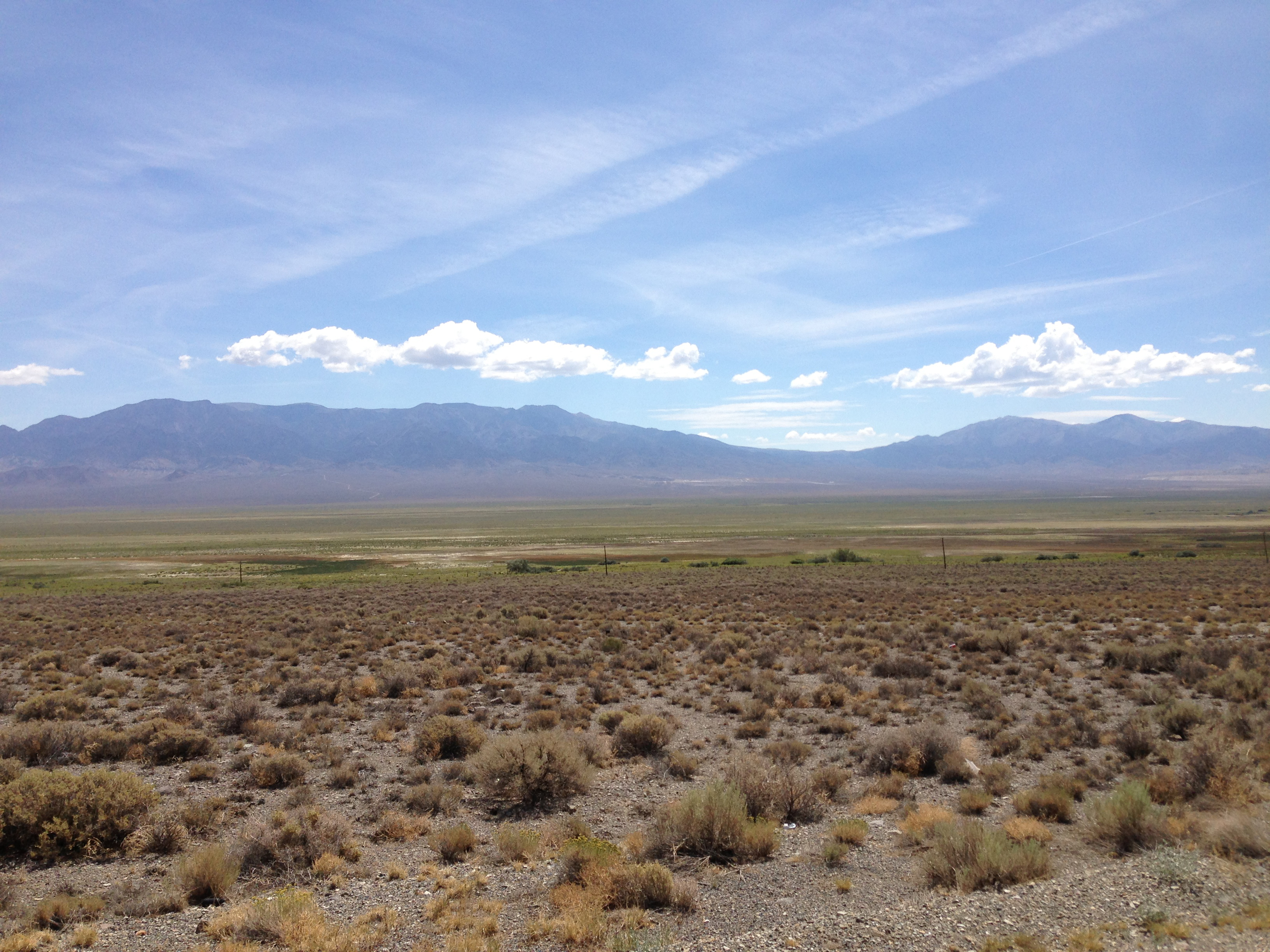 View of Mount Jefferson and Shoshone Mountain in the Toquima Range from Nevada State Route 376 (Tonopah-Austin Road) north of Carvers, Nevada